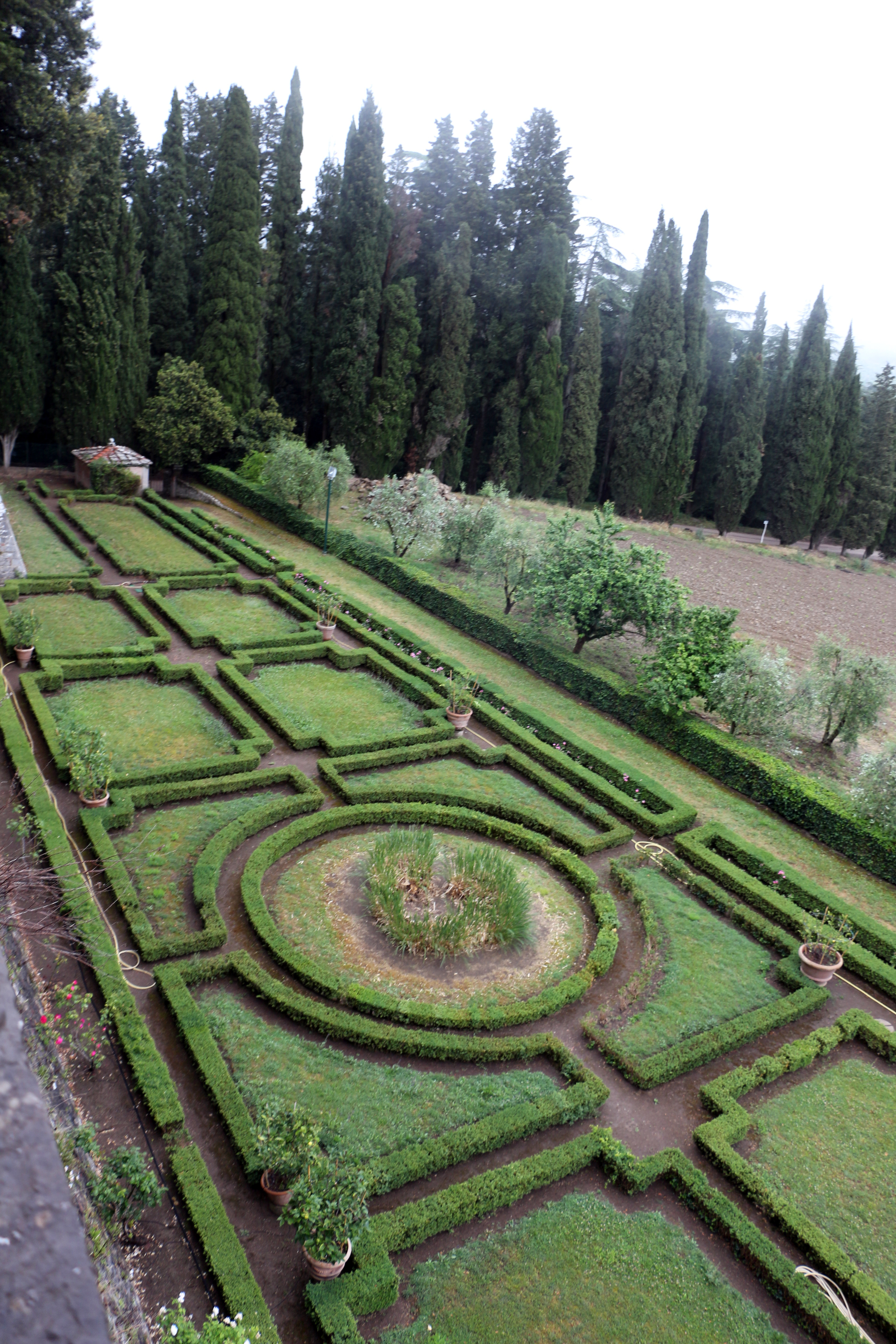 Castello di Brolio